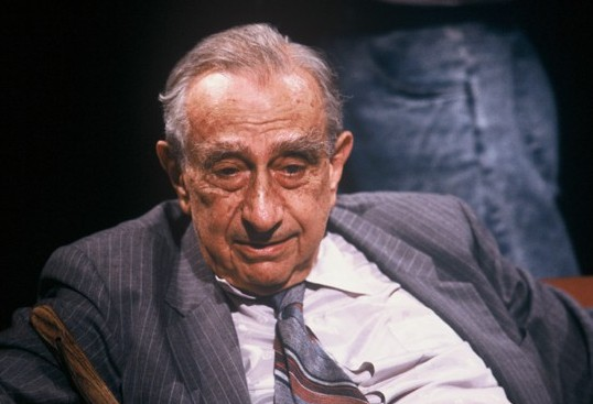 Edward Teller appearing on television discussion programme After Dark 3 July 1987 ("Peace In Our Time"). (c)1987 Open Media Ltd.